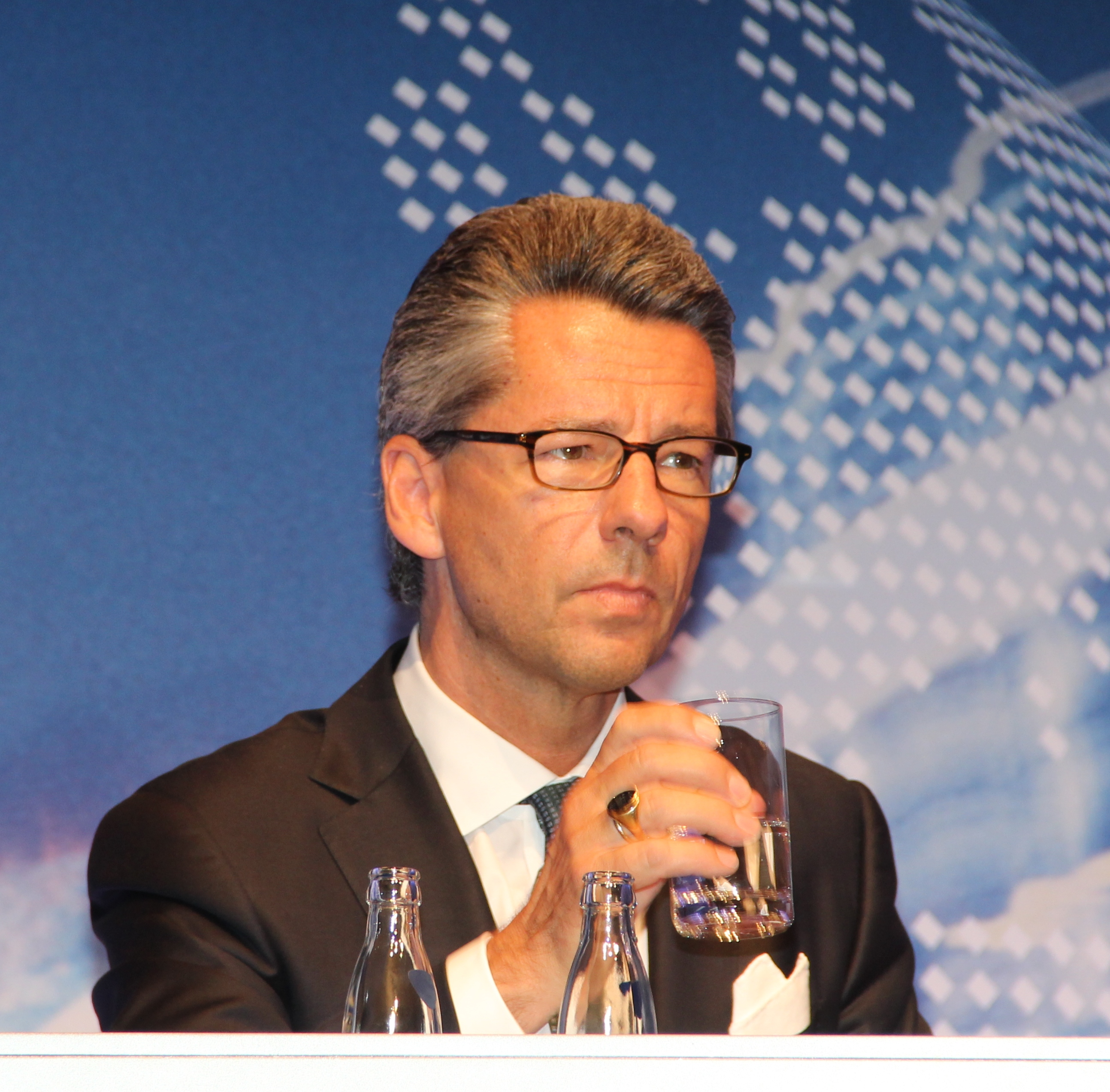 Ulrich Grillo, President of BDI (Bundesverband der Deutschen Industrie/Federation of German Industry) at the Electromobility Summit in Berlin 2013